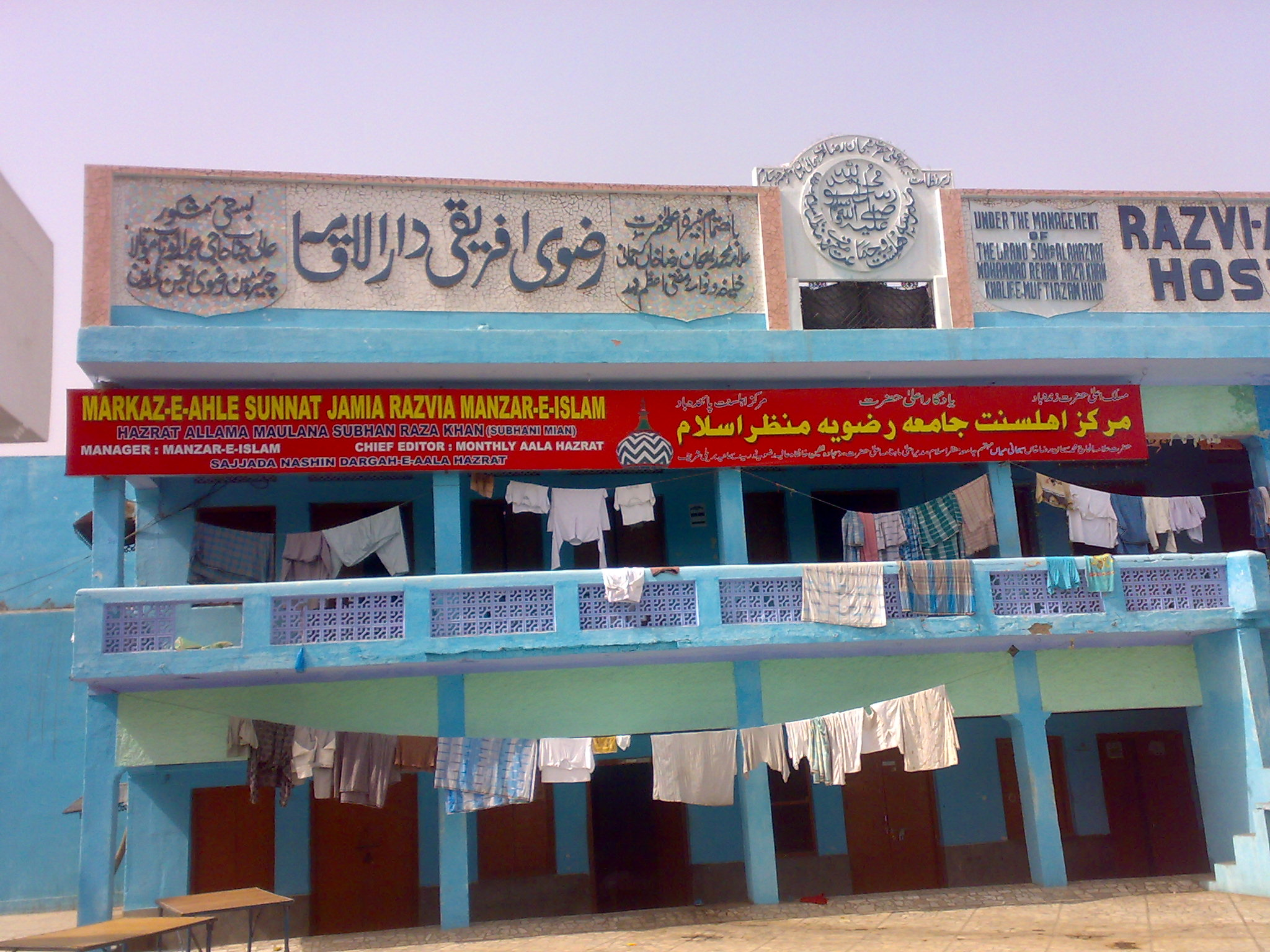 Darul Uloom Manzar-e-Islam Bareily, U.P. India (Hostel)